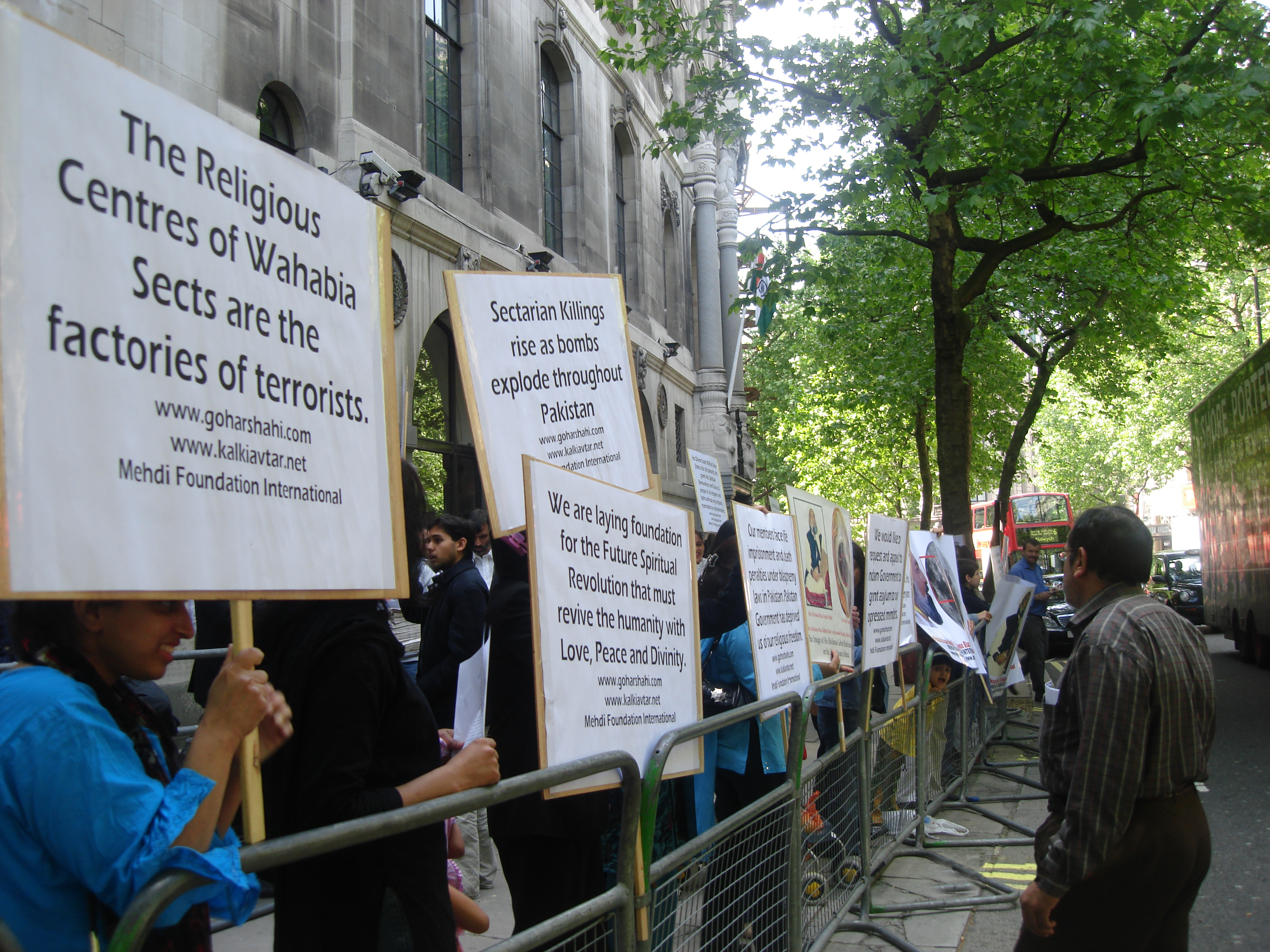 Placards by the organization